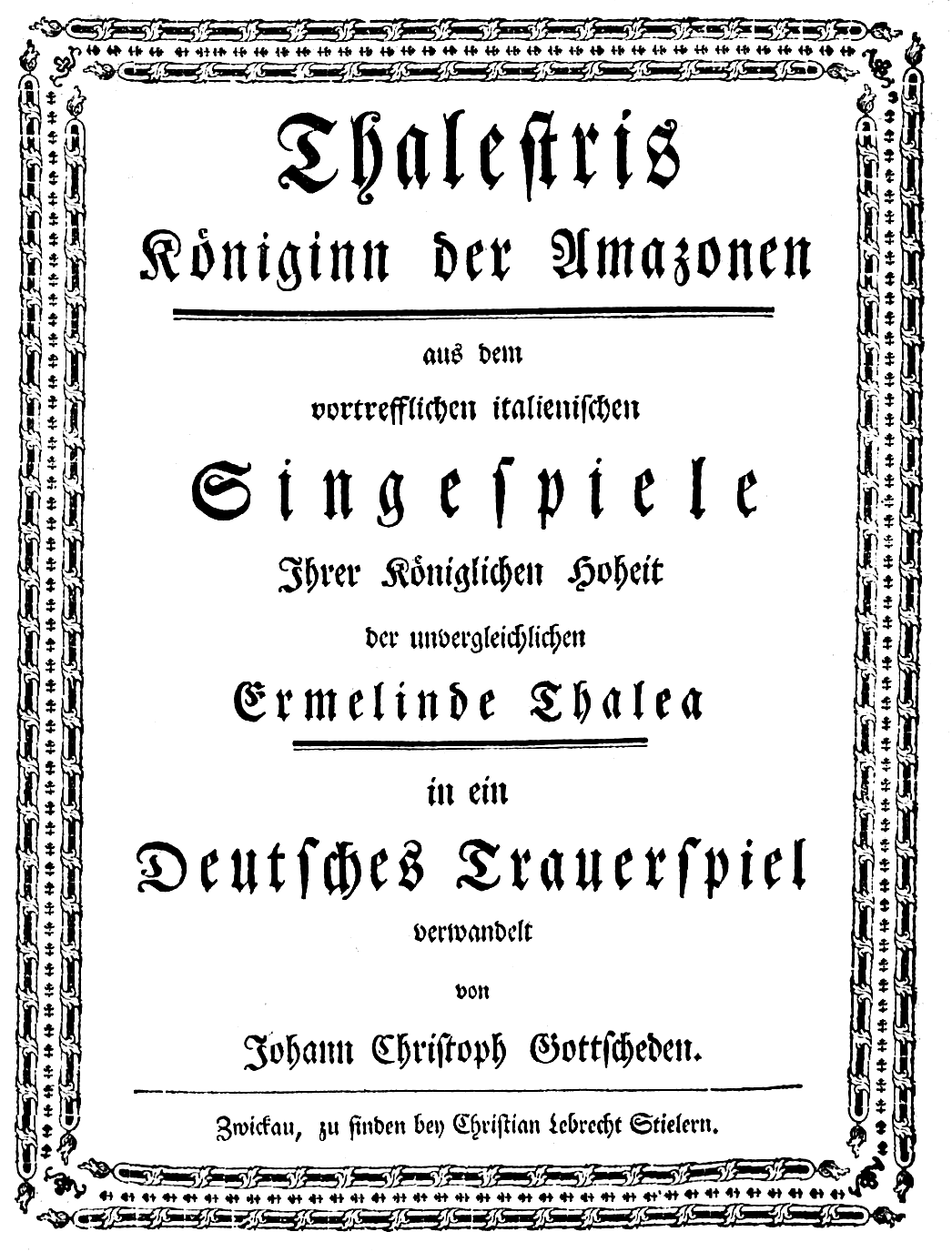 Johann Christoph Gottsched - Thalestris Königinn der Amazonen - titlepage - Zwickau 1766